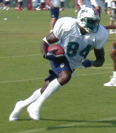 If used somewhere other than Wikipedia, Nelson, by name.